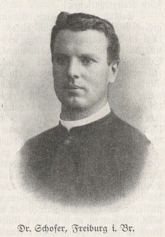 Joseph Schofer (1866-1930) katholischer Priester und Politiker